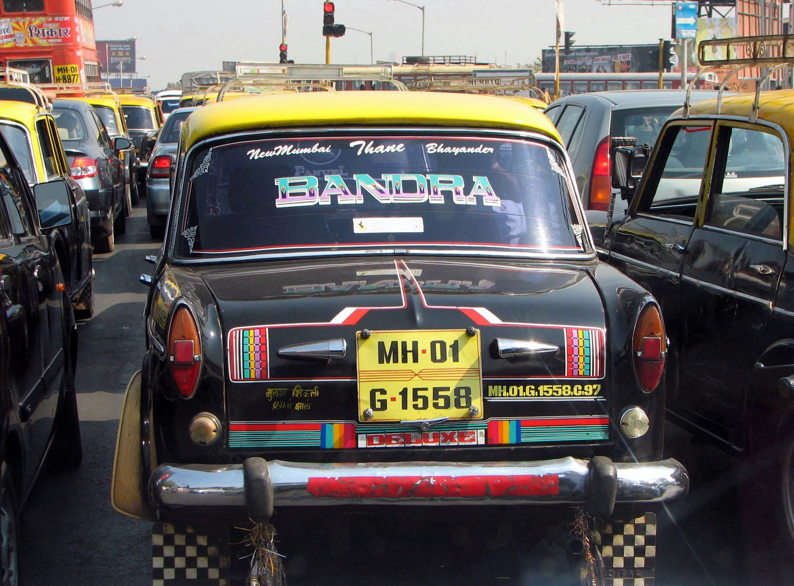 Taxi of Mumbai, India